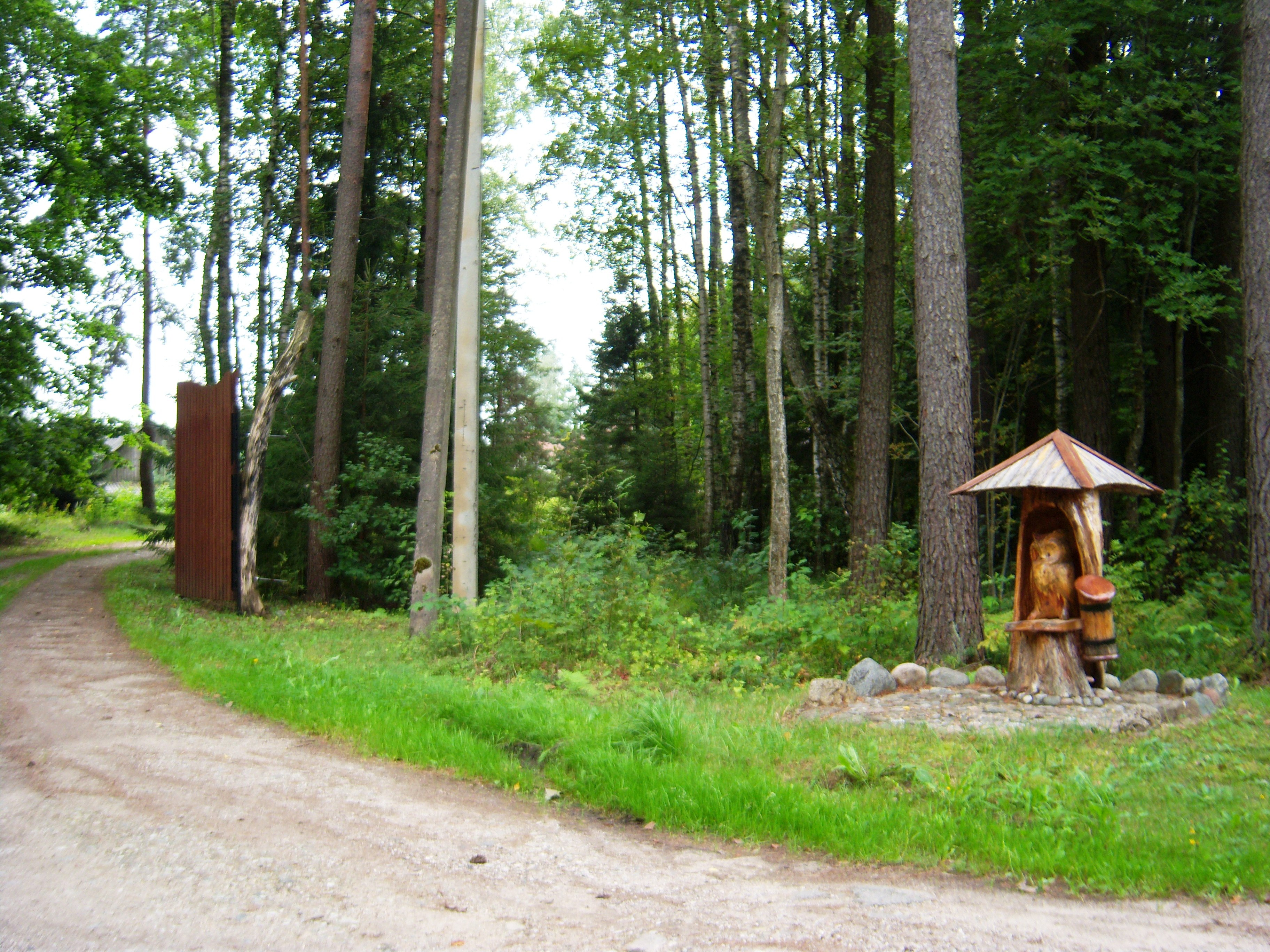 Nova village, Kaunas district. Lithuania